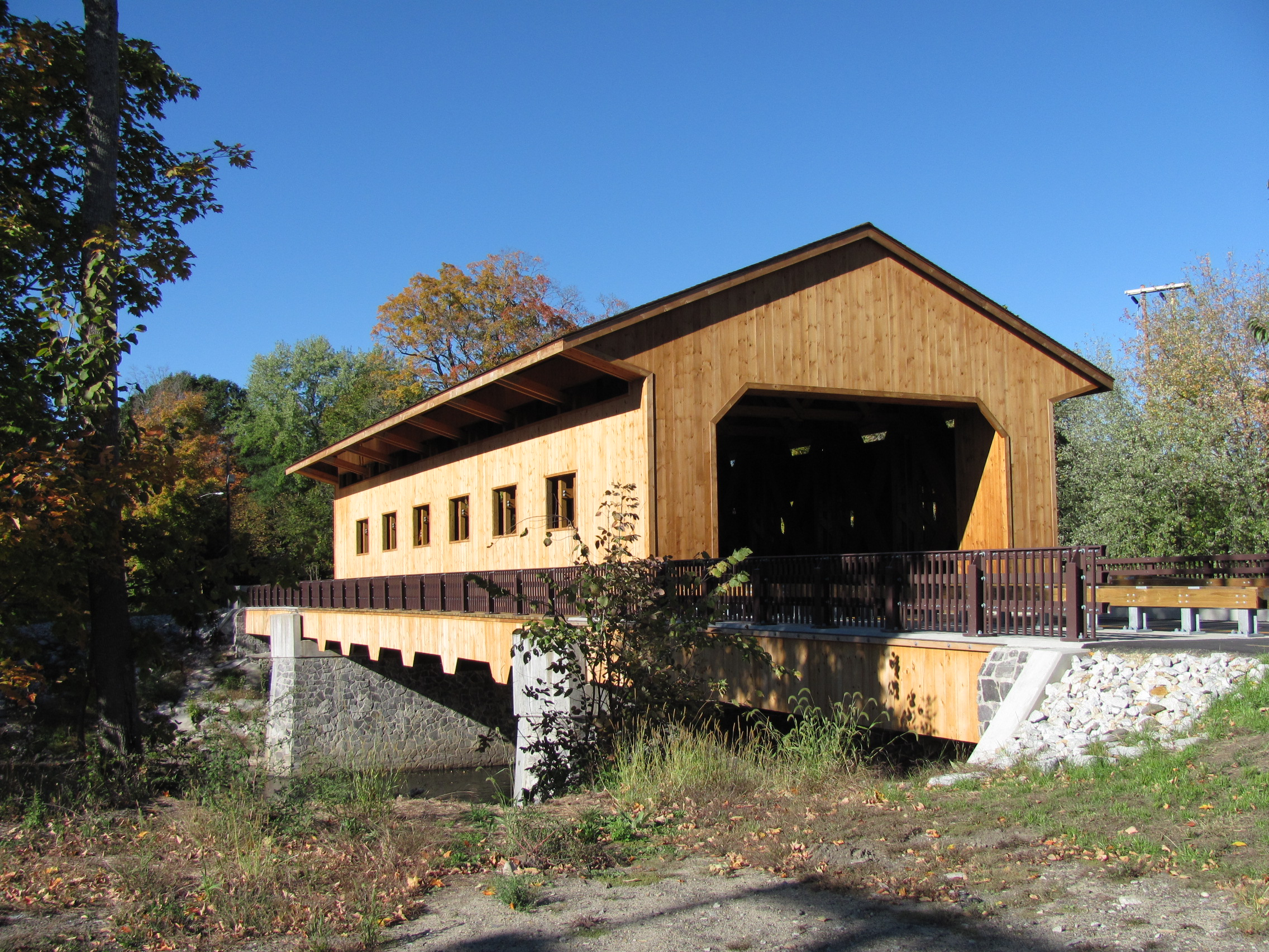 Pepperell Covered Bridge, East Pepperell Massachusetts